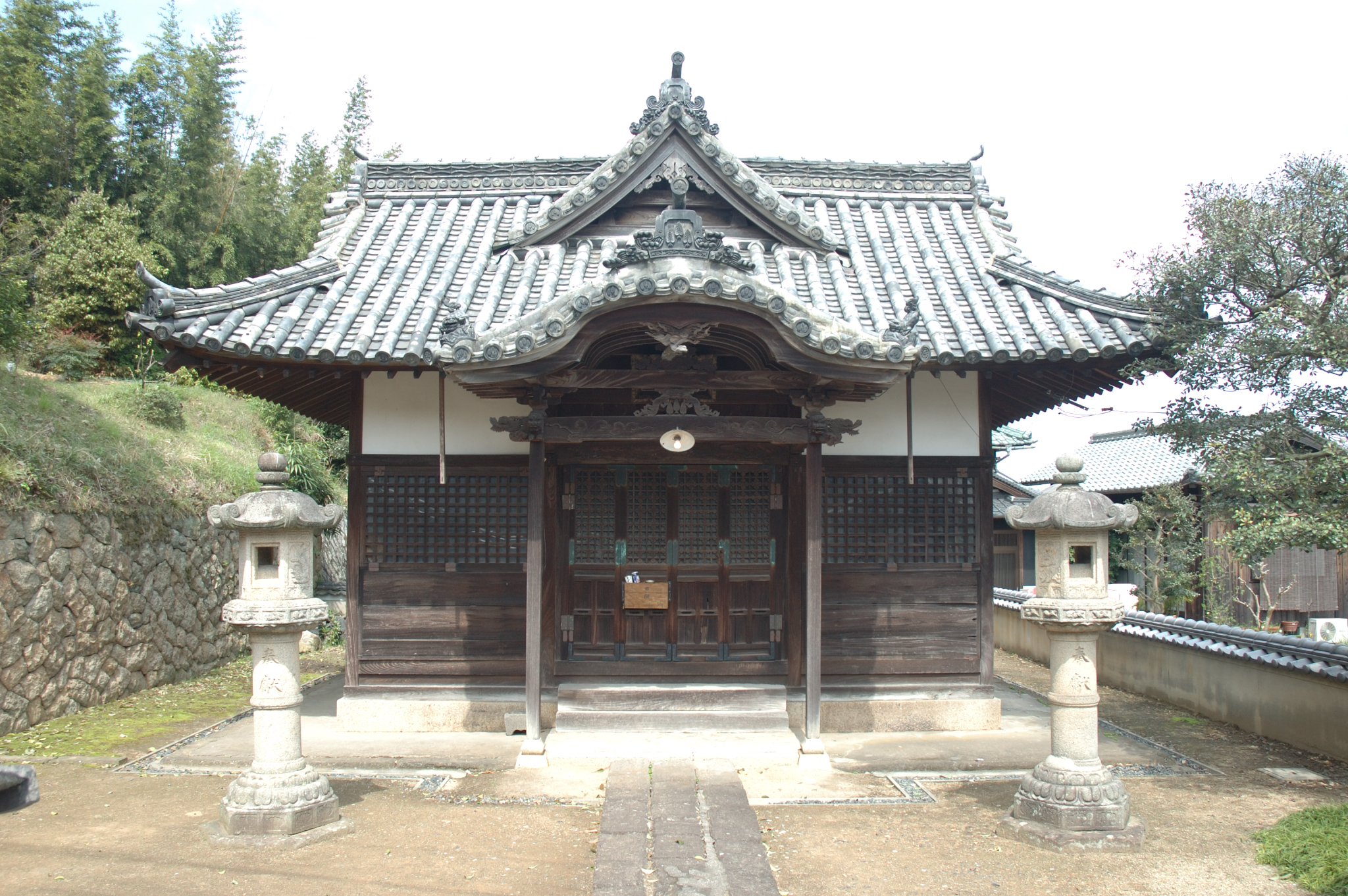 Yurindo(memorial tablet place of Togawa Hideyasu)at Mt. Tsuneyama